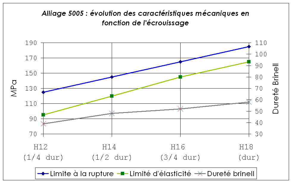 Mechanical characteristics evolution of a 5005 aluminium alloy (sheet, 1.5 mm thick) with different degree of cold work Auteur/author Romary juillet/July 2006